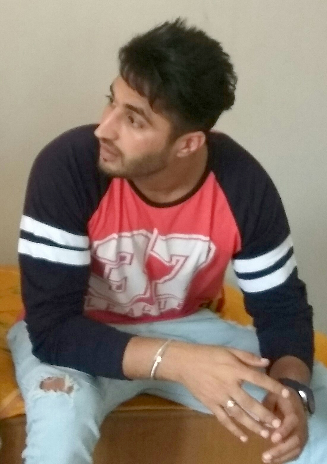 Jassi Gill is a Punjabi singer and actor